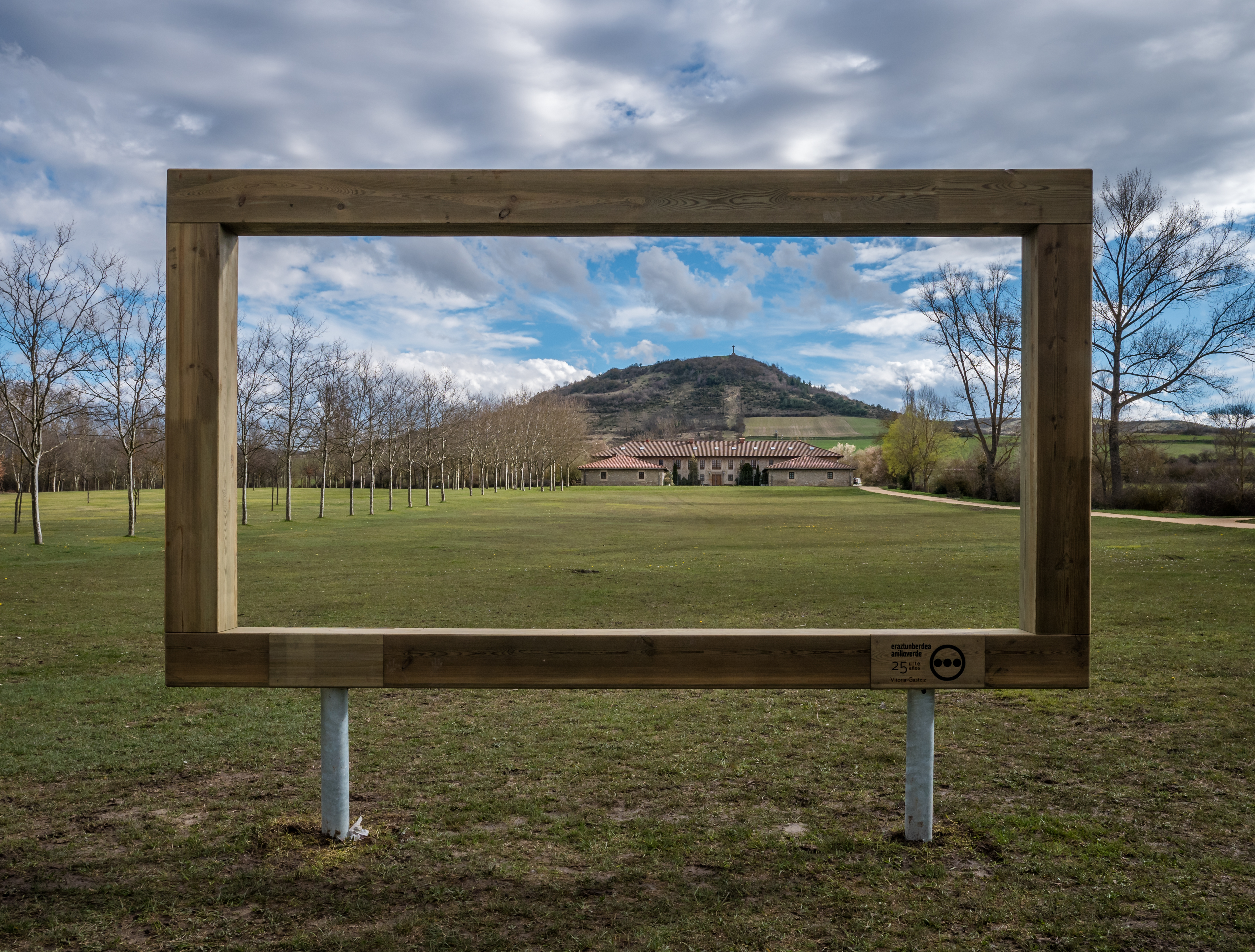 Artistic frame installed at the 25th anniversary of the Green Ring of Vitoria. Basque Country, Spain